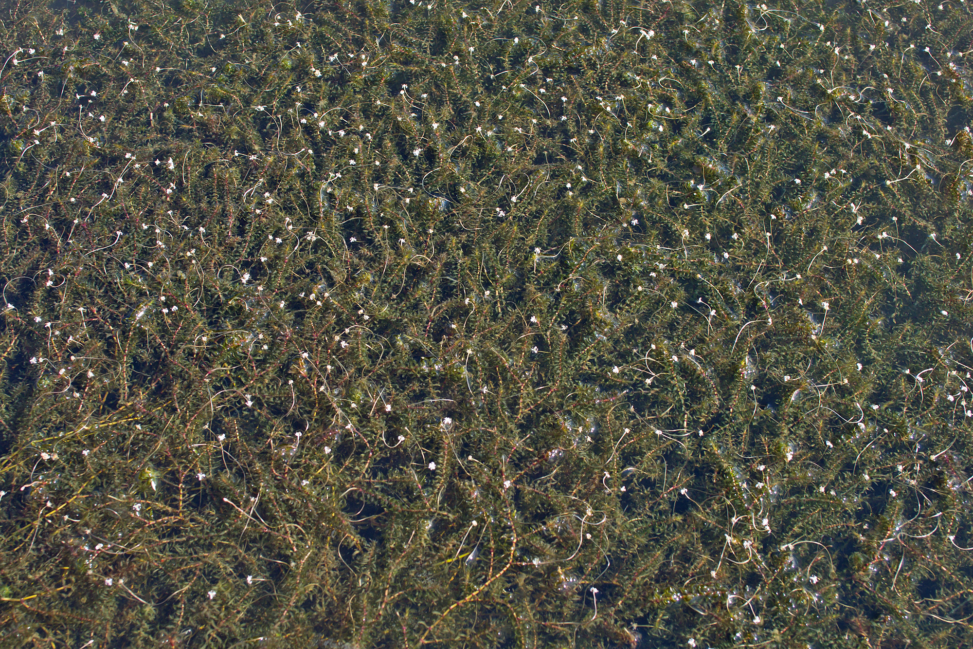 Aspect of flowering Western Waterweed (Elodea nuttallii) in a loamy pond.